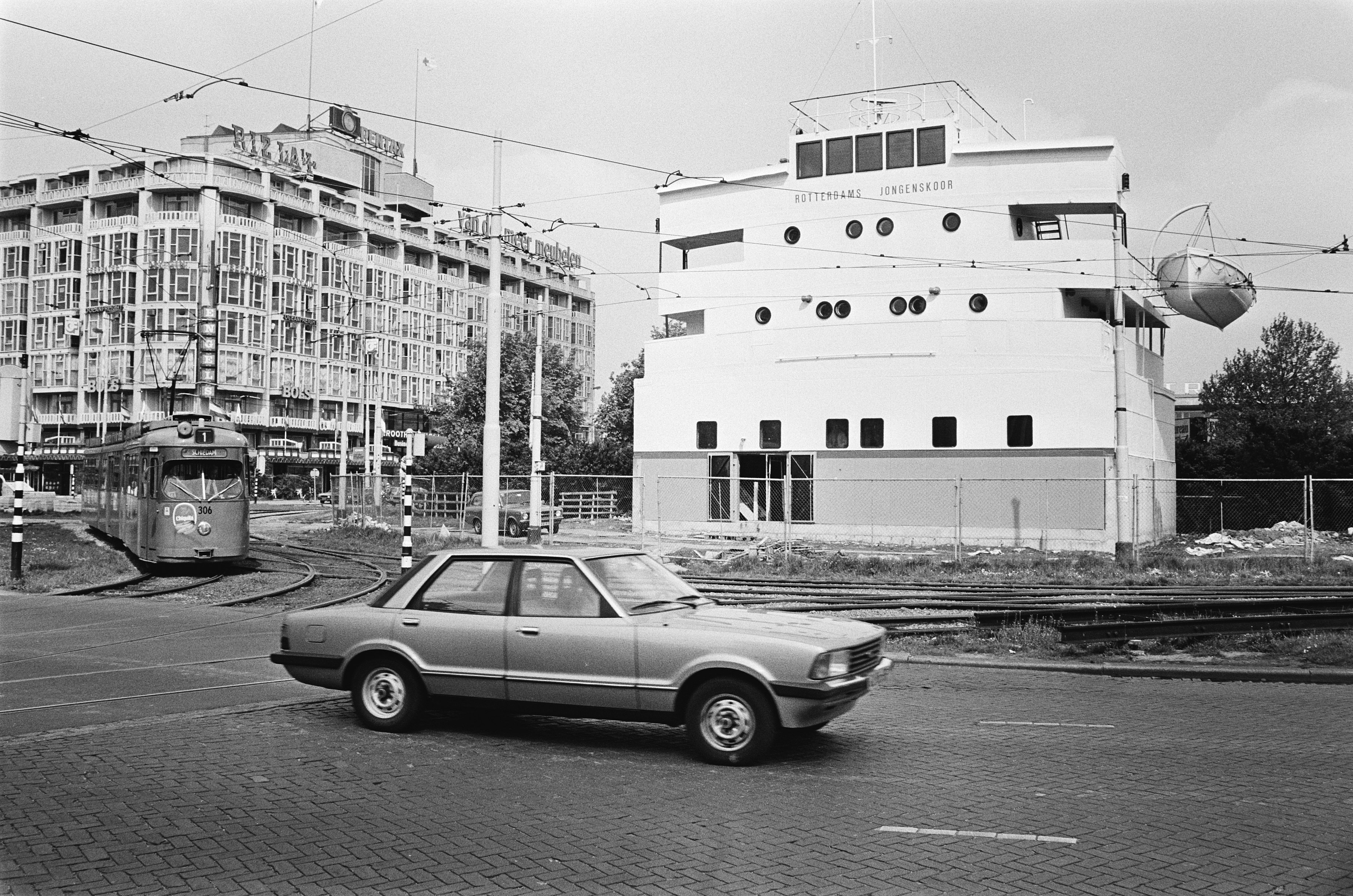 The last hand was placed on the Esso Tanker command bridge on the station square in Rotterdam as a rehearsal room for the Rotterdam Boys Choir